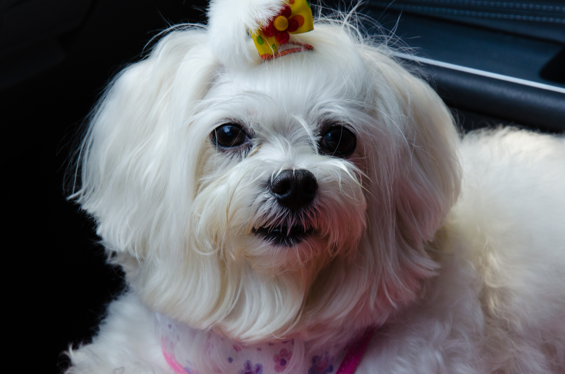 Female Maltese Dog